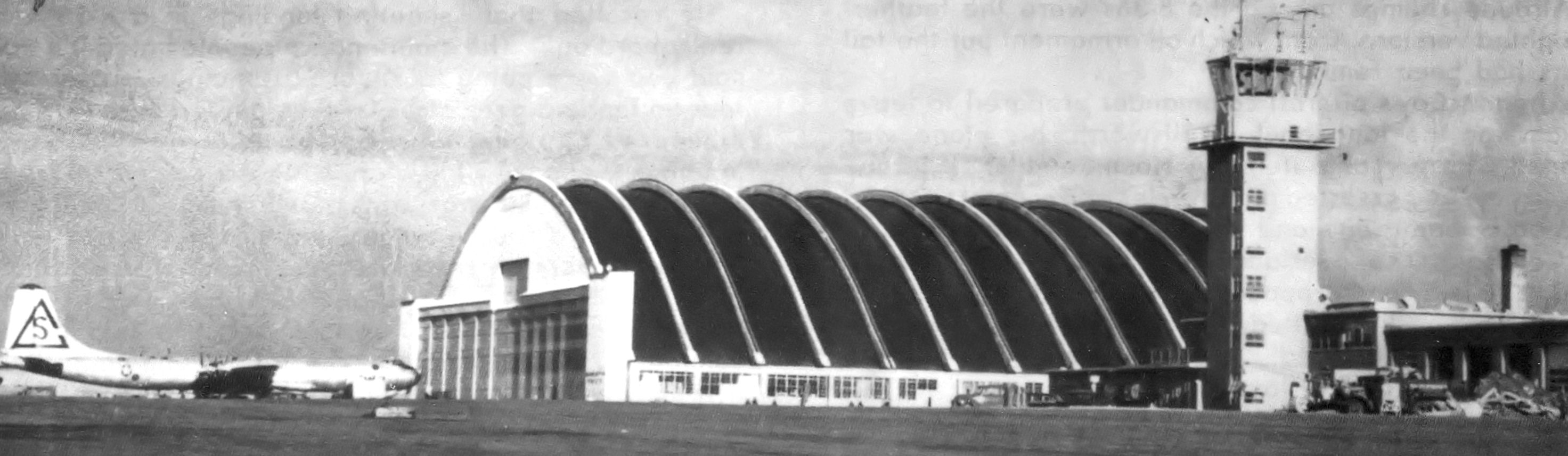 Rapid City Air Force Base B-36 Hangar 1952